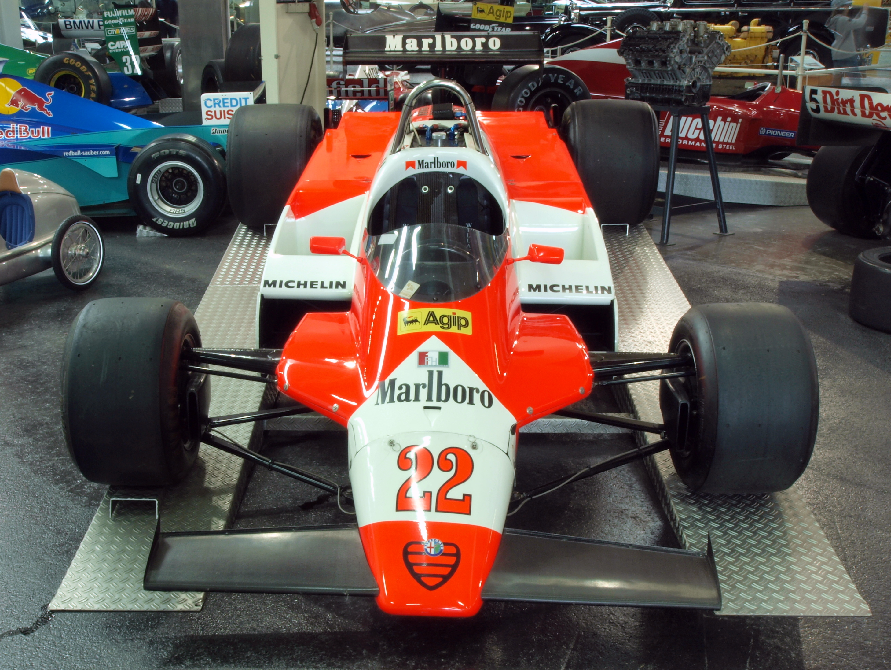 Photographed at the Auto & Technic museum Sinsheim.